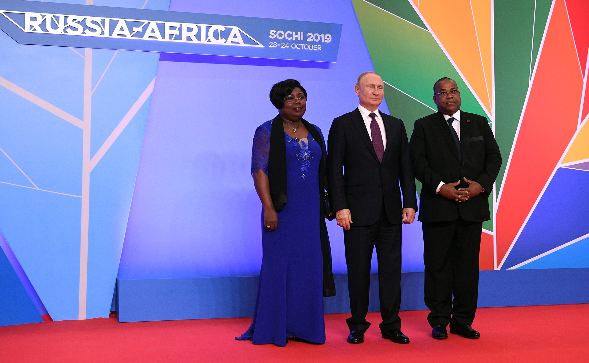 Official welcoming ceremony before the reception on behalf of the President of Russia in honour of the heads of state and government of the countries participating in the Russia-Africa Summit. With Prime Minister of Gabon Julien Nkoghe Bekale and his spouse. Photo: RIA Novosti